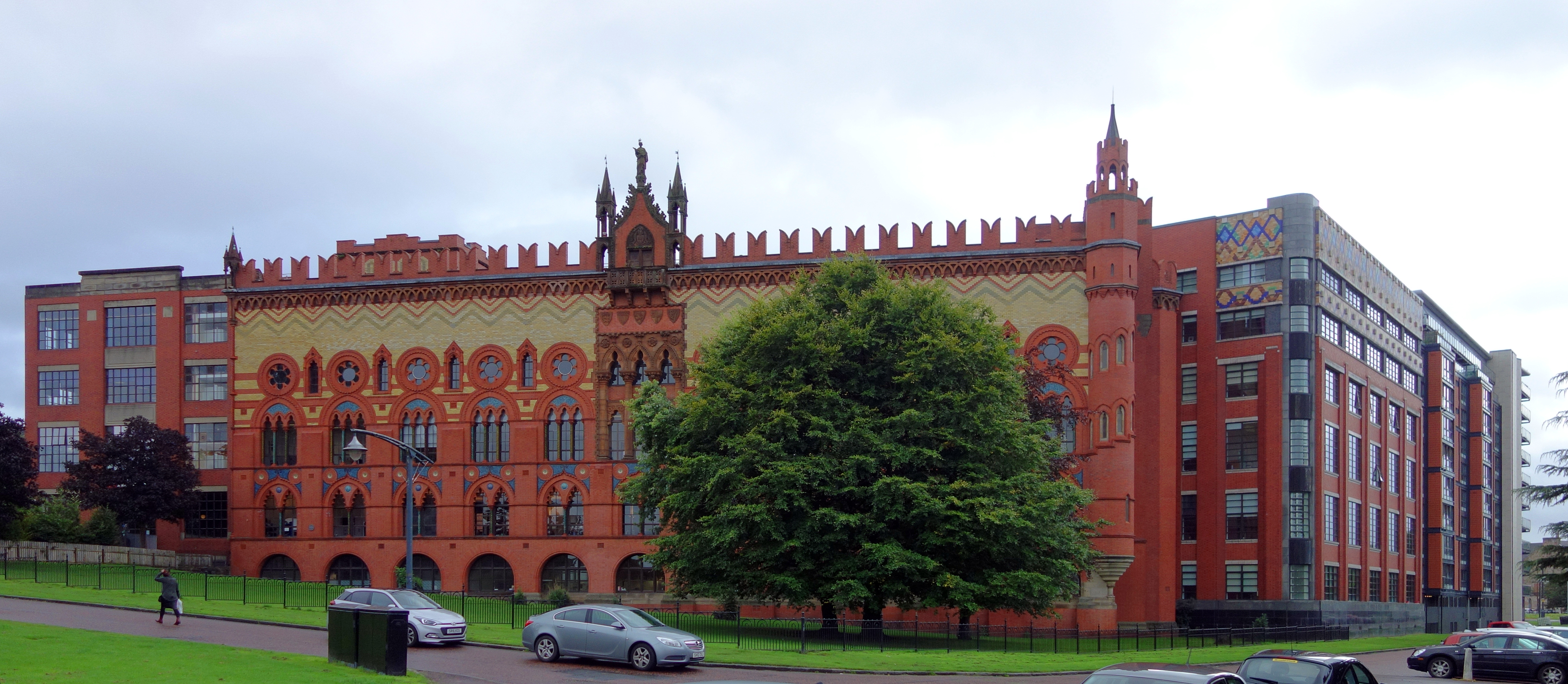 Templeton On The Green, previously known as Templeton Carpet Factory, in Glasgow.